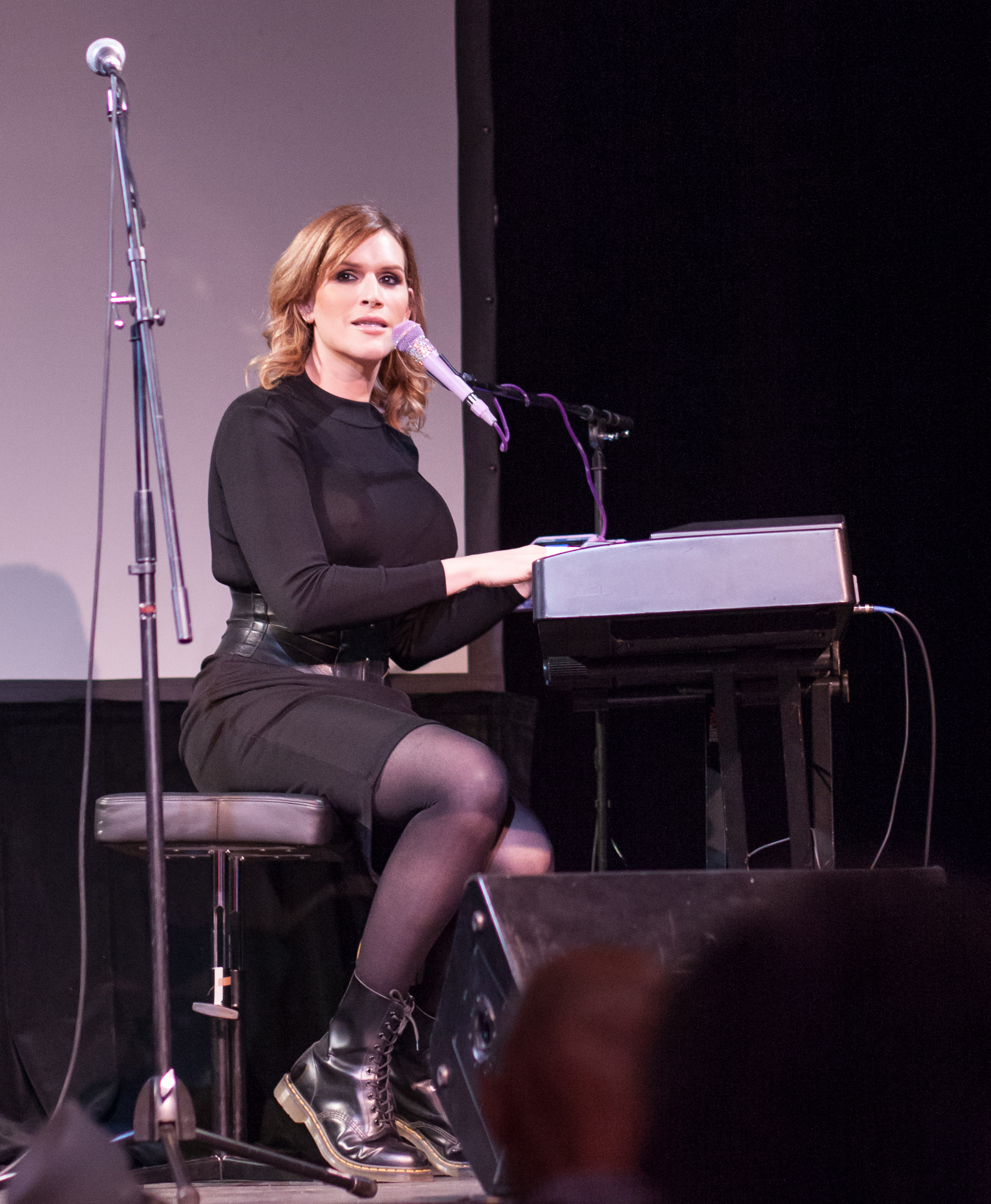 Our Lady J performs at the 2016 Trans Day of Visibility celebration in San Francisco.